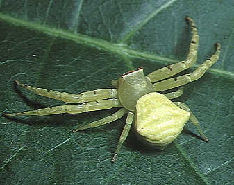 female Thomisus okinawensis from Okinawa.